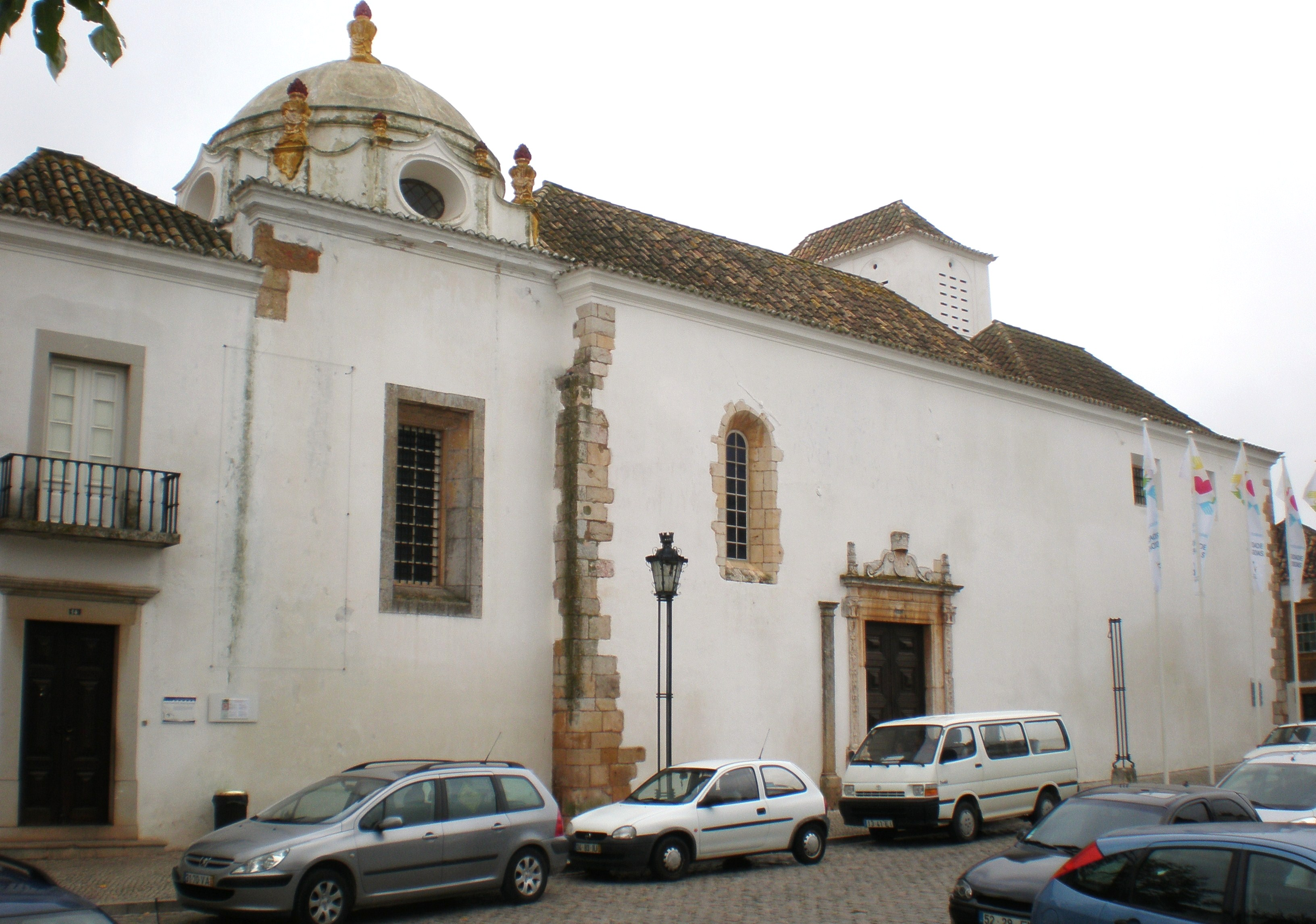 Arqueological Museum, Faro, Portugal